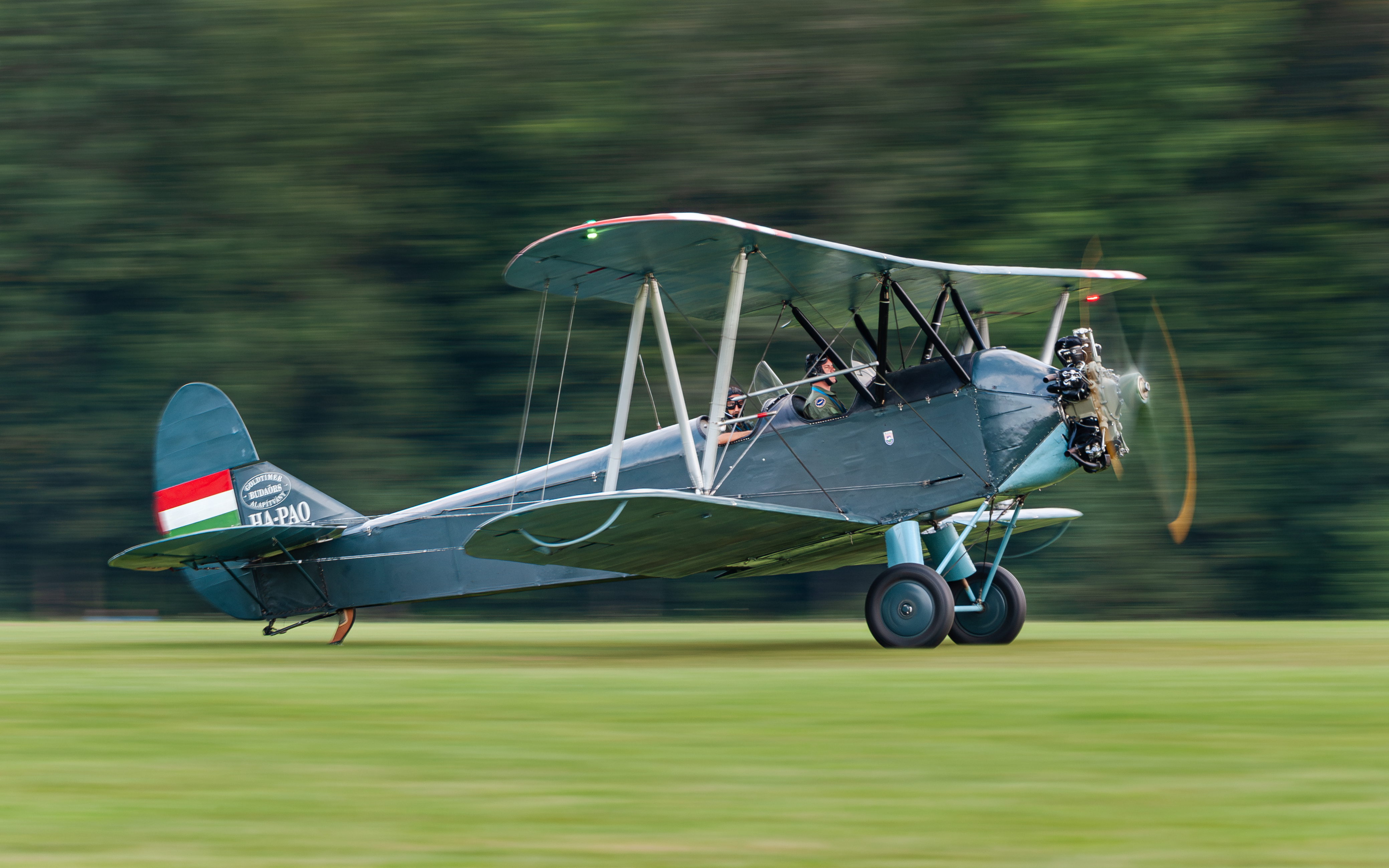 Polikarpov Po-2 (reg. HA-PAO, cn 48, built in 1954). Engine: M-11FR.